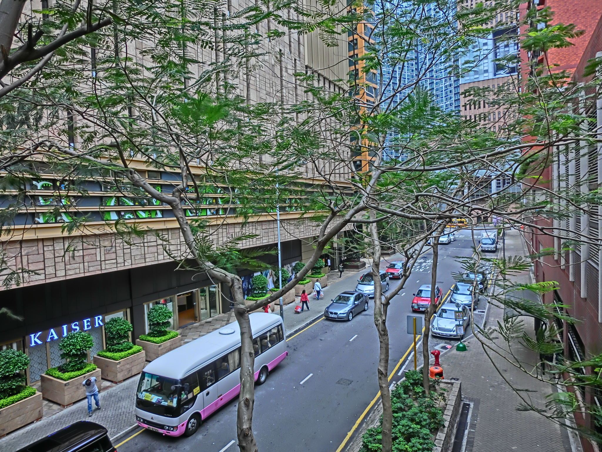 紅磡海濱南岸, Harbour Place view Yan Yun Street, Hung Hom, Hong Kong